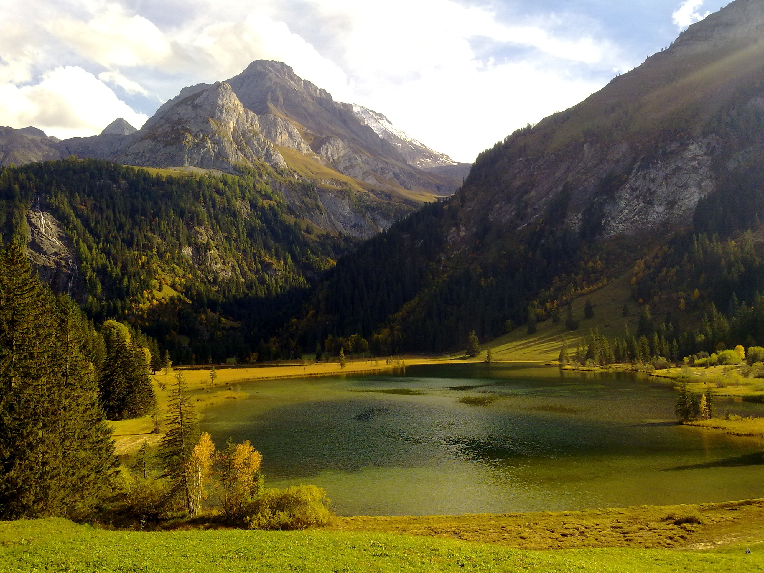 Lauenensee